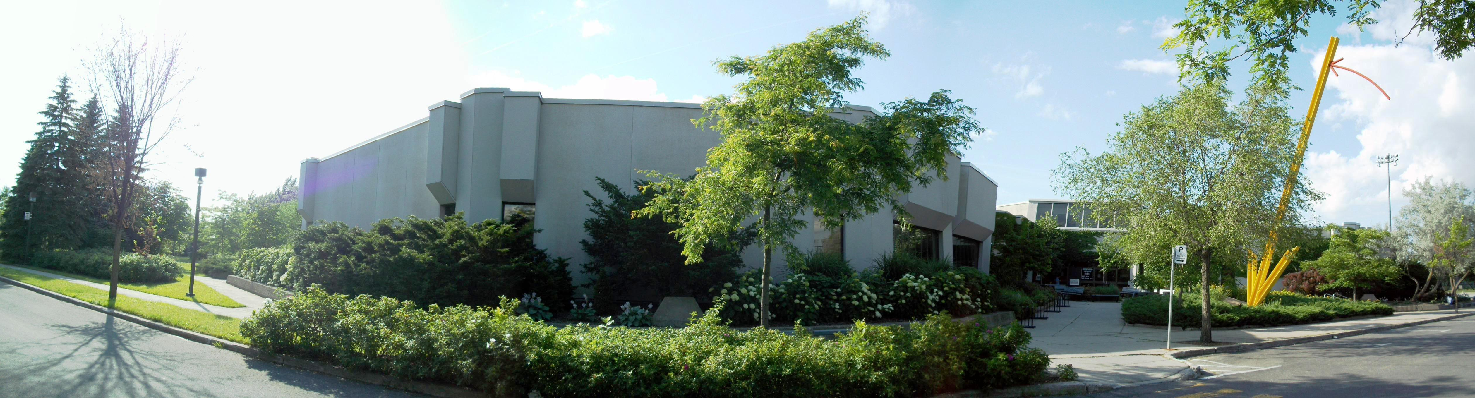 The centre culturel l'Octagon ("Octagon Cultural Centre") which contains the l'Octagone Library. The yellow arrow appears in the film The Decline of the American Empire